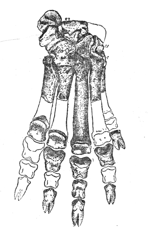 Homalodotherium segoviae right anterior foot illustrated from Florentino Ameghino works.